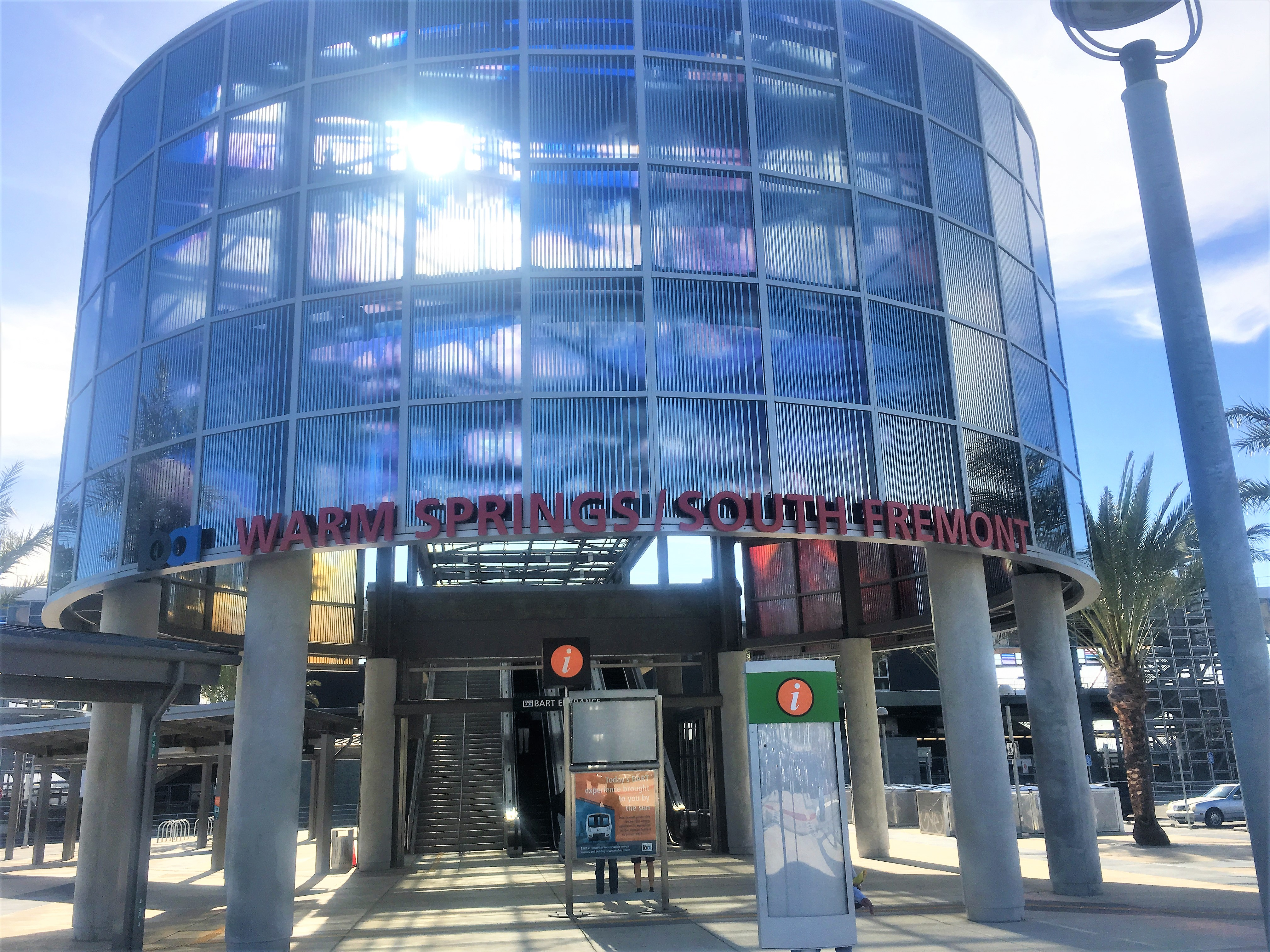 Outside of the entrance structure of BART's Warm Springs/South Fremont station, on the day of opening.